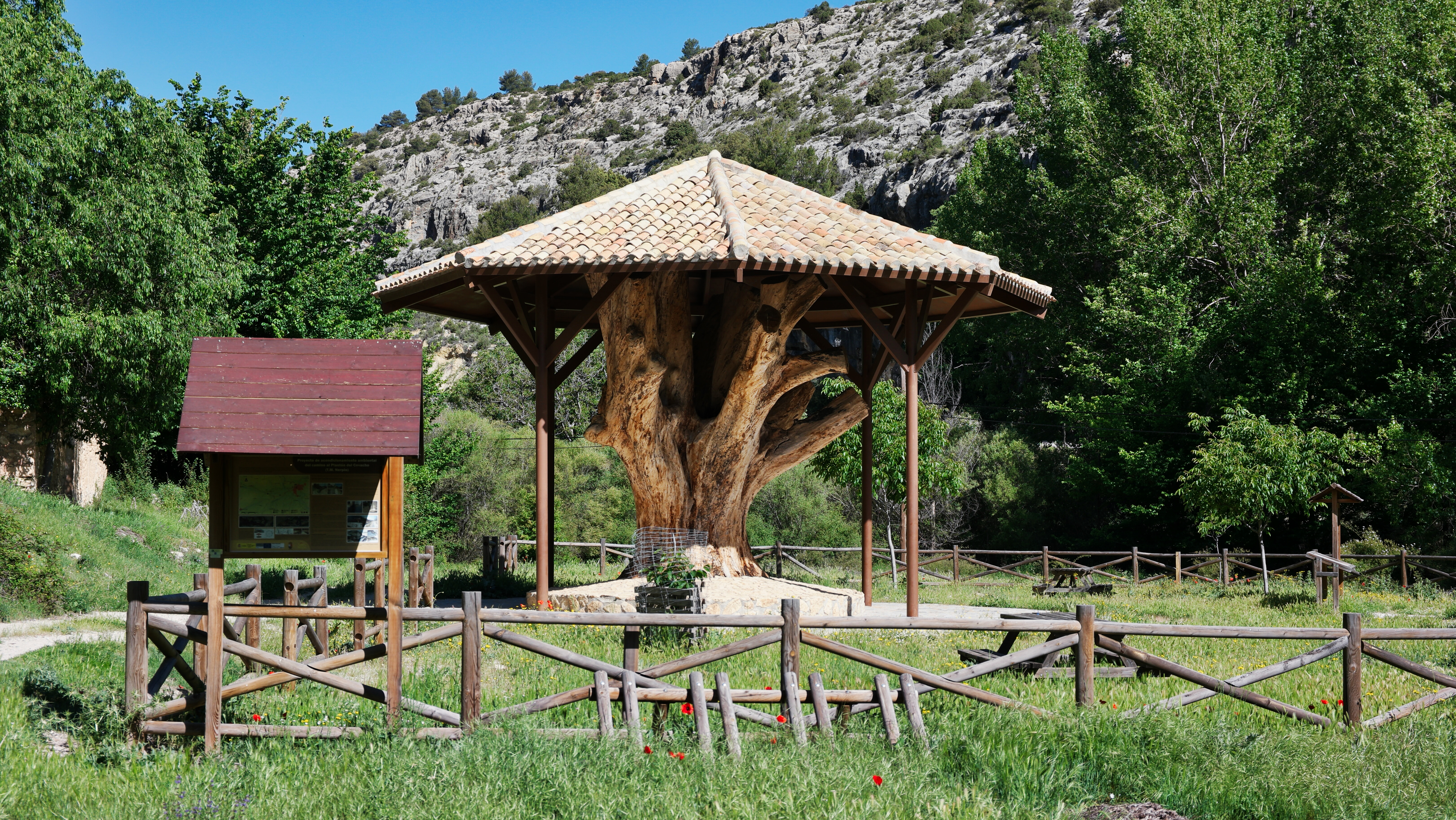 Remains of famous - 500 year old - tree in the valley of the Rio Taibilla in Spain near Nerpio.